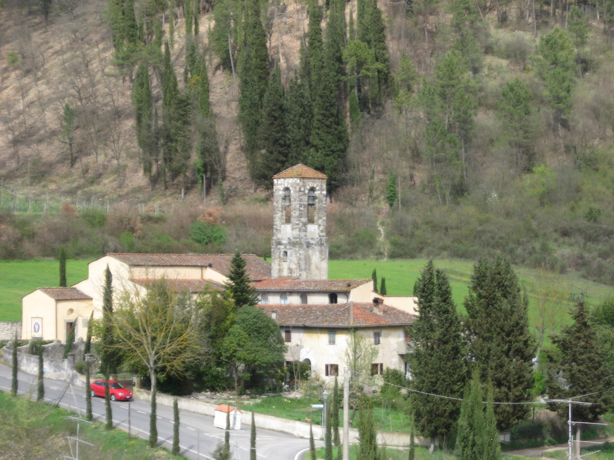 San Leolino's Church